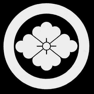 Crest of Goto clan